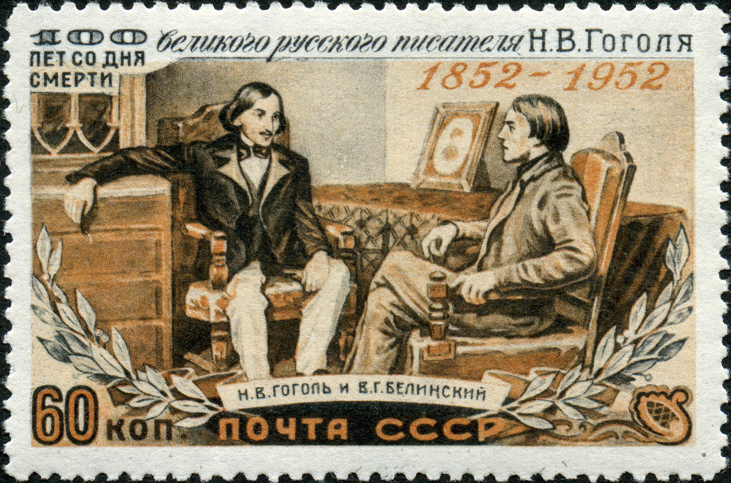 The stamp of the USSR devoted to the 100 anniversary from the date of death N.V.Gogol (N. Gogol and V. Belinsky), 1952